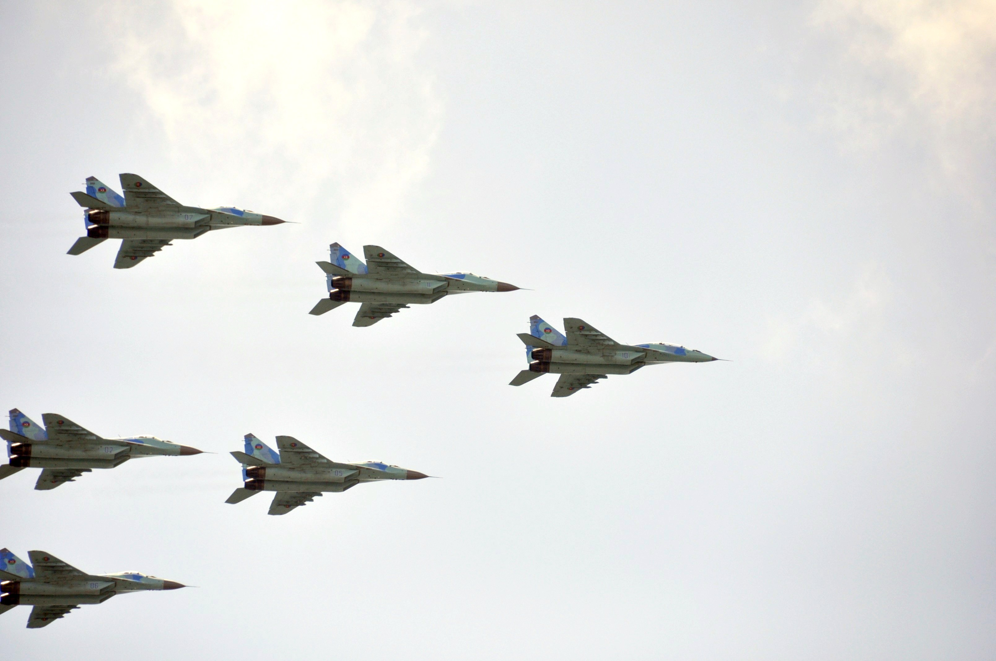 Military parade in Baku on an Army Day